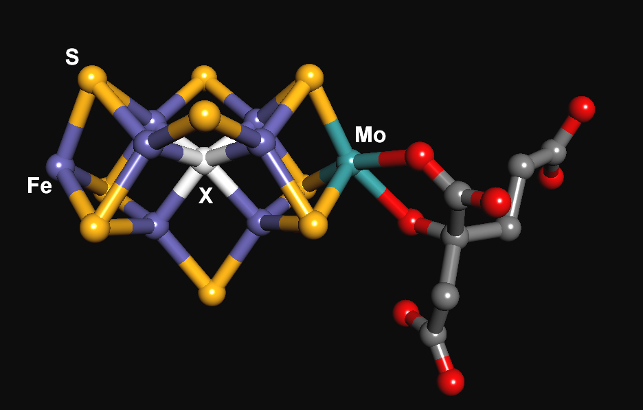 The FeMo cluster from Azotobacter vinelandii nitrogenase. Image created with Accelrys DS Visualizer from PDB file 1M1N. Some atoms labelled on figure; bound to molybdenum is a molecule of R-homocitrate. X is thought to be nitrogen, oxygen or carbon, with the latest (2011) studies pointing to carbon as the most likely candidate.